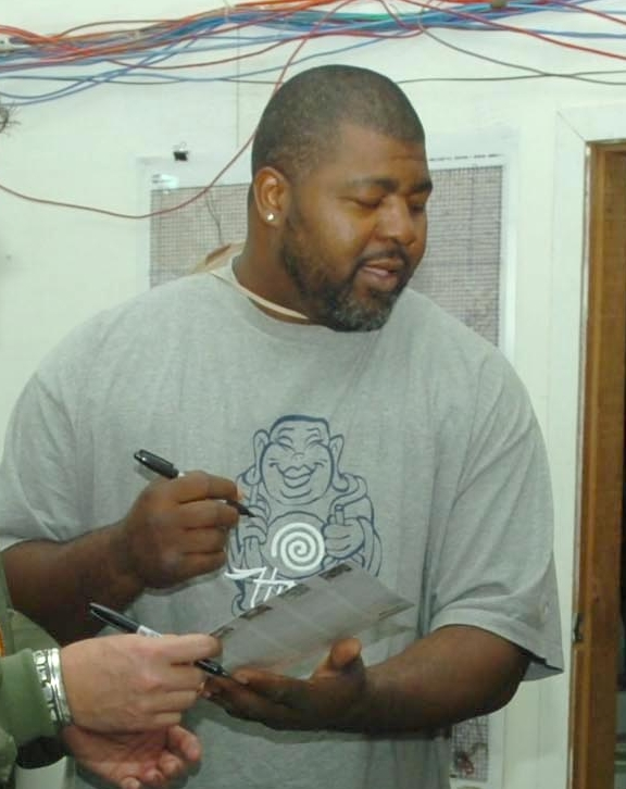 Tikrit, IQ - Bryan Cox signs autographs for soldiers.